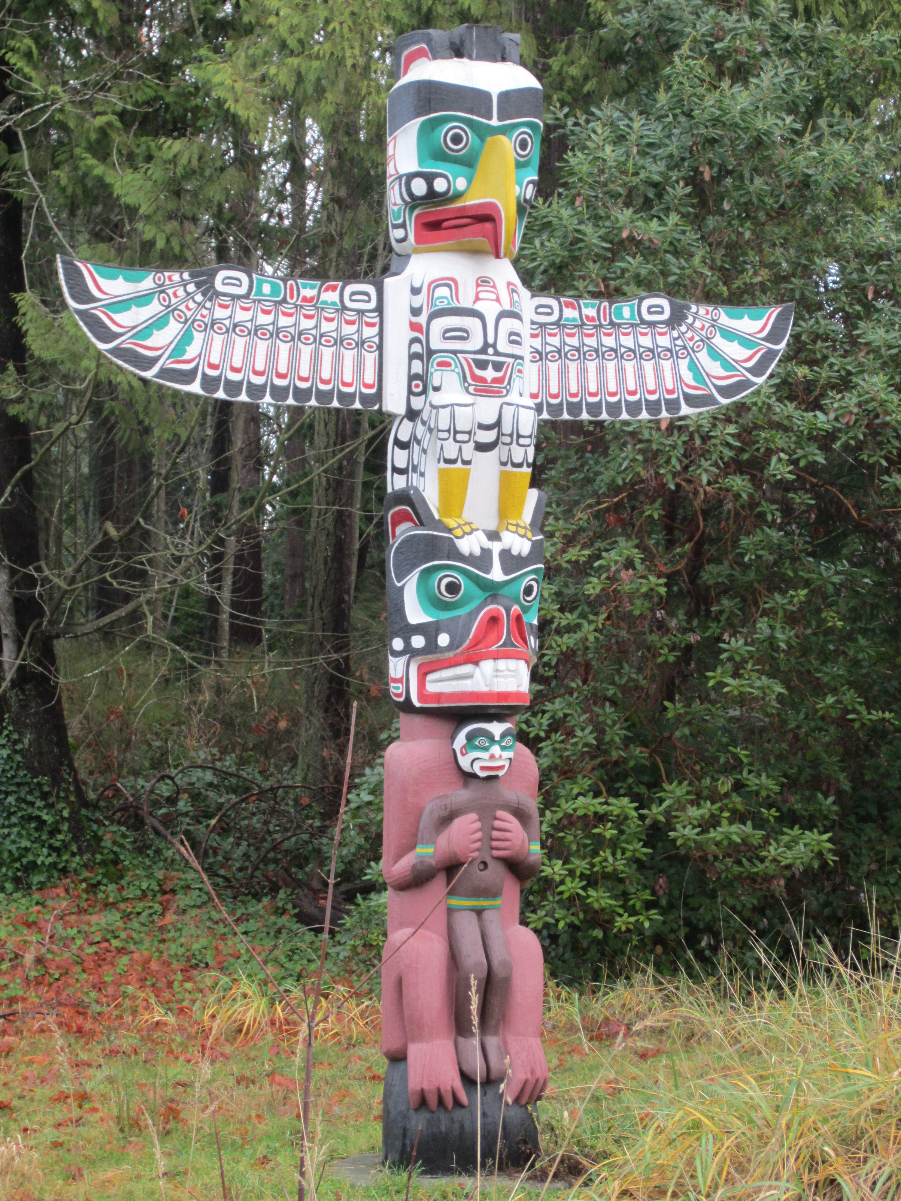 Thunderbird House Post Totem Pole, carved by Tony Hunt in 1987 as a copy of an older pole, carved by Kwakwaka'wakw artist Charlie James in the early 1900s, which is now in the Vancouver Museum. Stanley Park, Vancouver, British Columbia (2012)